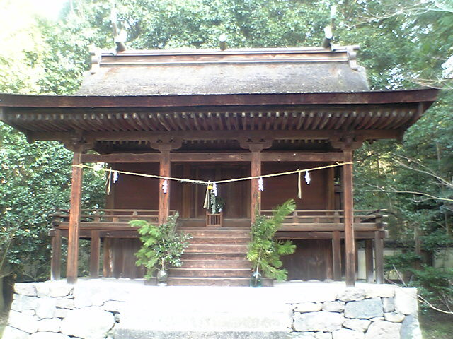 Main shrine of Kandani Shrine(Japan's national treasure) in Sakaide, Kagawa, Japan.It is the oldest building in the Shinto shrine in Japan.